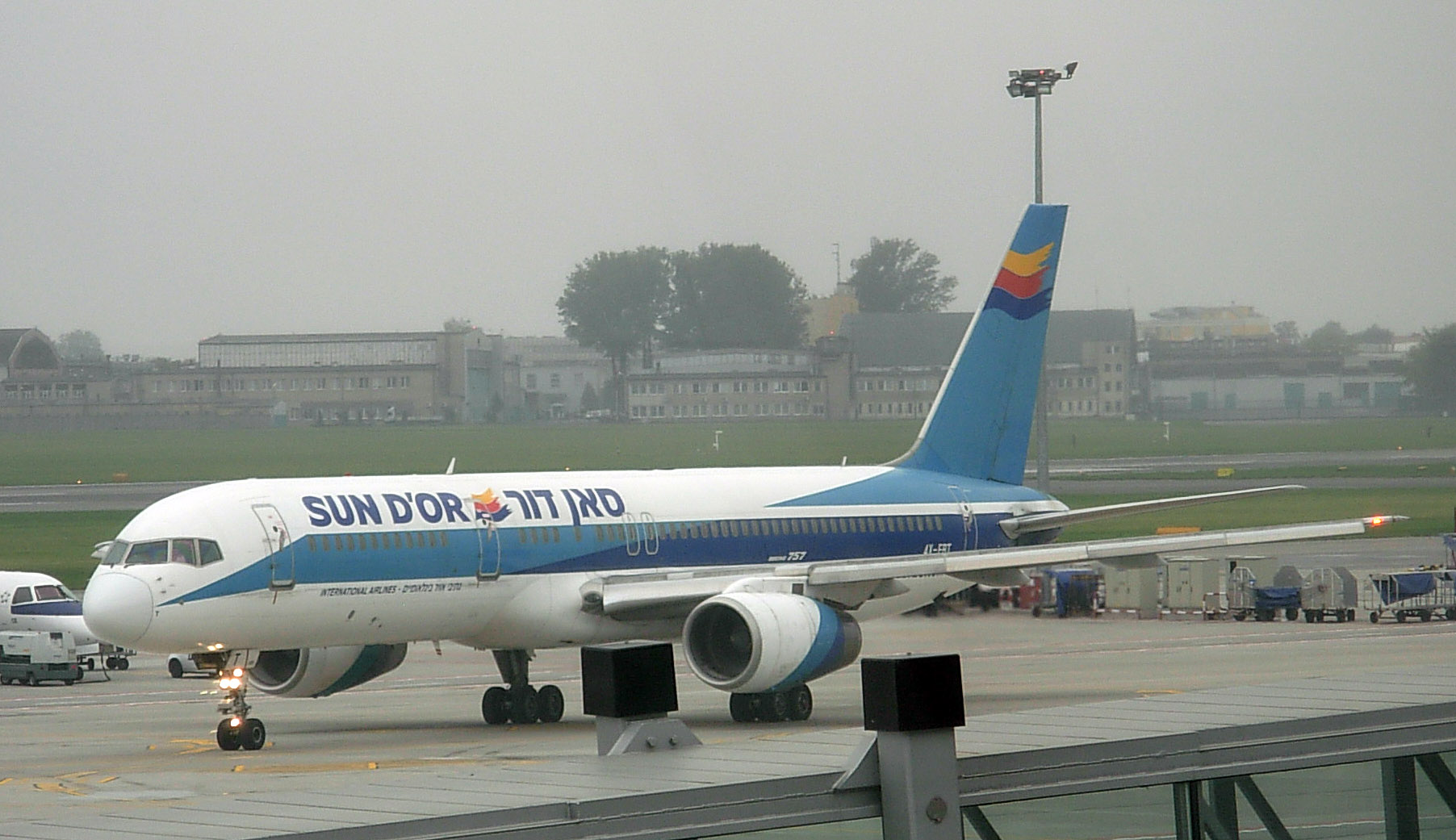 Sun d'Or B-757-200 (4X-EBT) in Warsaw, Poland (Okęcie Airport)